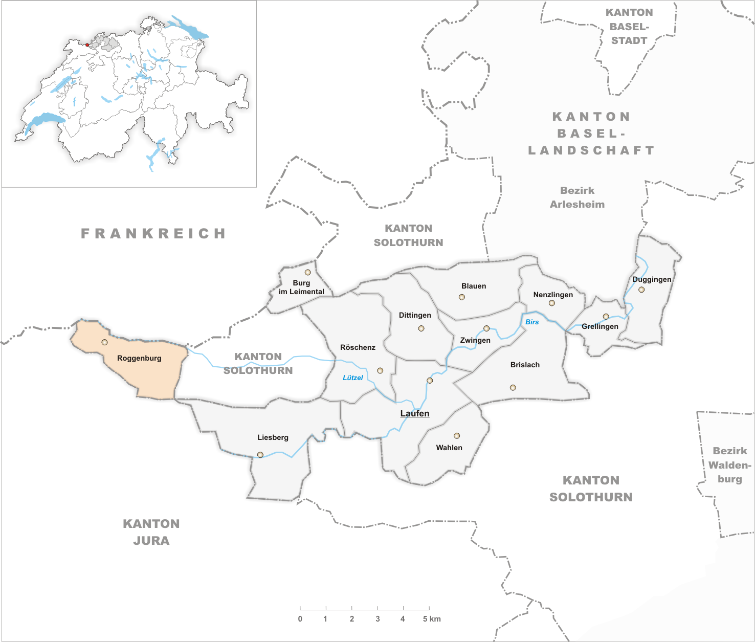 Municipality Roggenburg